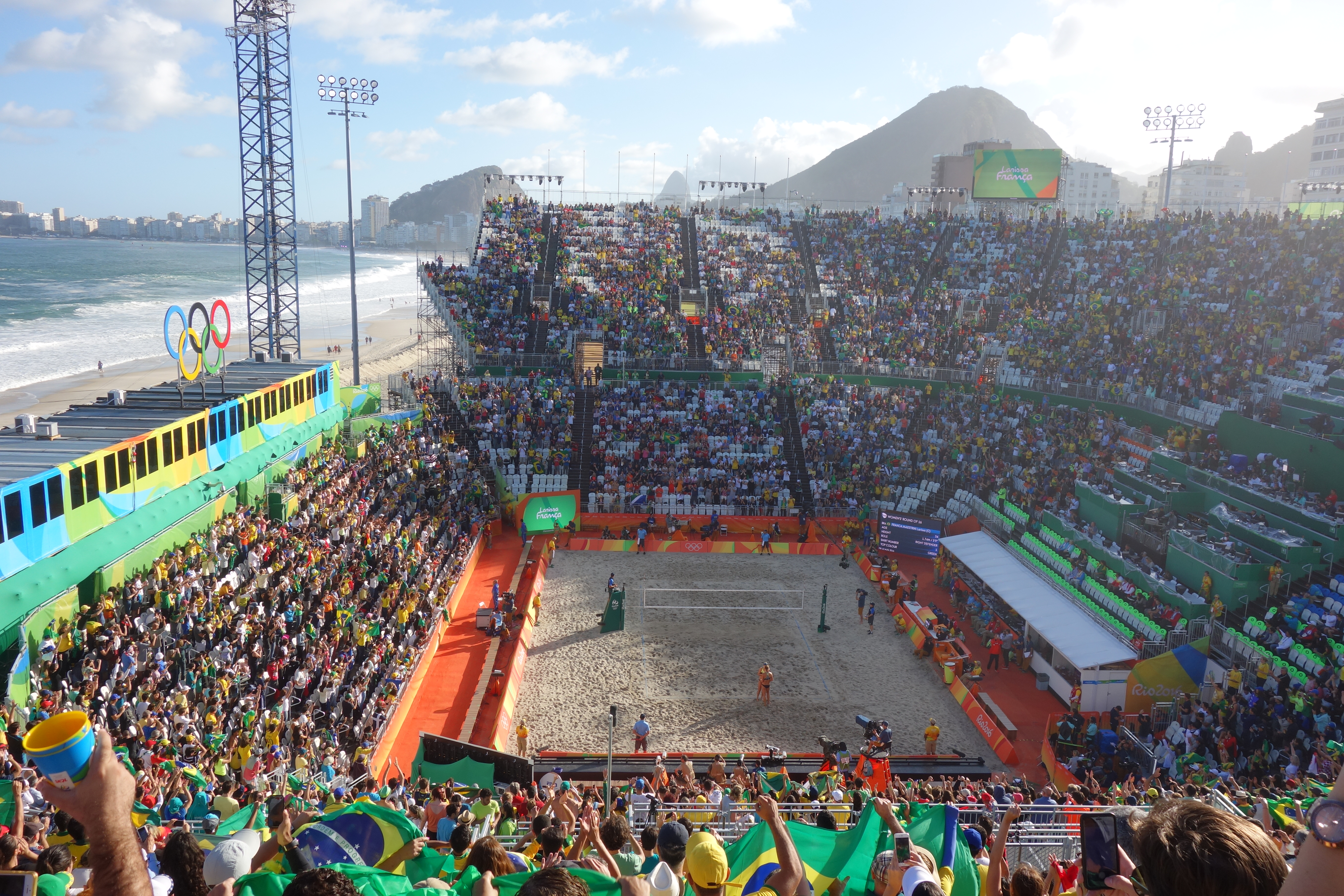 Larissa-Talita (BRA) vs Borger-Büthe (GER), Olympic women's beach volleyball, Beach Volleyball Arena, Rio de Janeiro, Brazil.